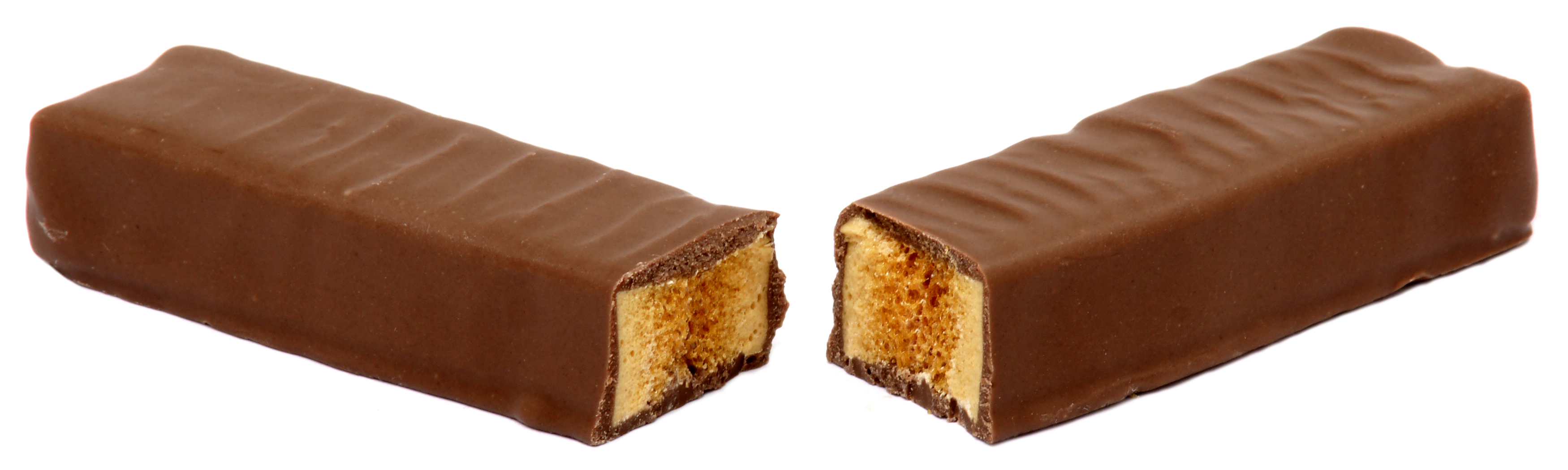 A Cadbury Crunchie candy bar, split in half.